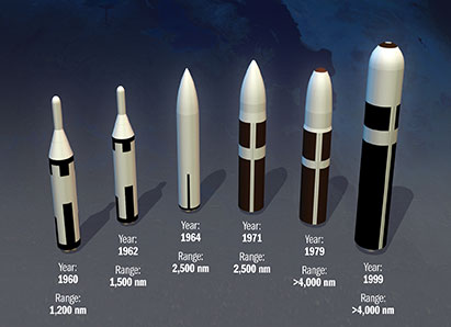 Weapons of the Fleet Ballistic Missile Submarine Fleet, (left to right): Polaris A1, Polaris A2, Polaris A3, Poseidon, Trident I and Trident II. "The original FBM submarine force consisted of 41 submarines, authorized from 1957 through 1963 and delivered between 1959 and 1967. The first two classes, the George Washington class and the Ethan Allen class, consisted of 10 submarines that carried the three generations of the Polaris. The next 31 FBM submarines of the Lafayette class were all originally constructed to carry the Polaris but were converted from 1969 through 1976 to carry the Poseidon C3 missile. Subsequently, 12 James Madison- and Benjamin Franklin-class submarines were back-fitted to carry the Trident I C4 from 1978 through 1981. The last of the original 41 SSBNs were retired upon the return of USS Mariano G. Vallejo (SSBN-658) from her final patrol on April 2, 1994."Forty-one for Freedom